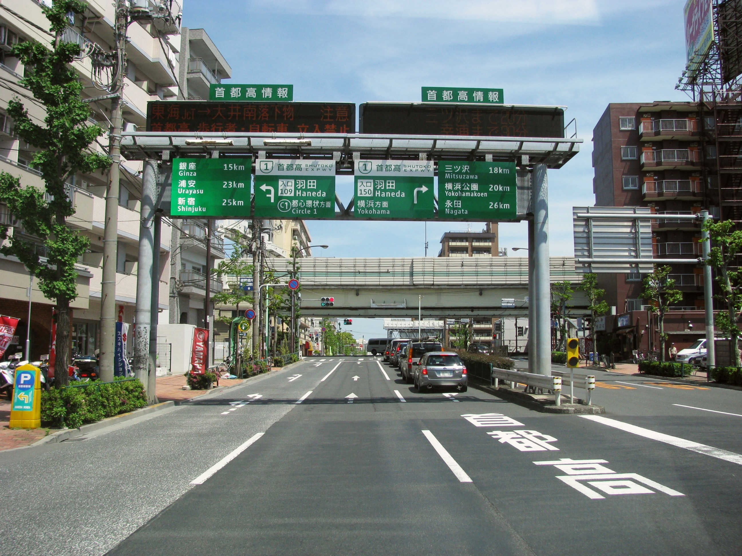 The Japan National Route 131. This location is Higashi-Kōjiya in Ōta, Tokyo, Japan.